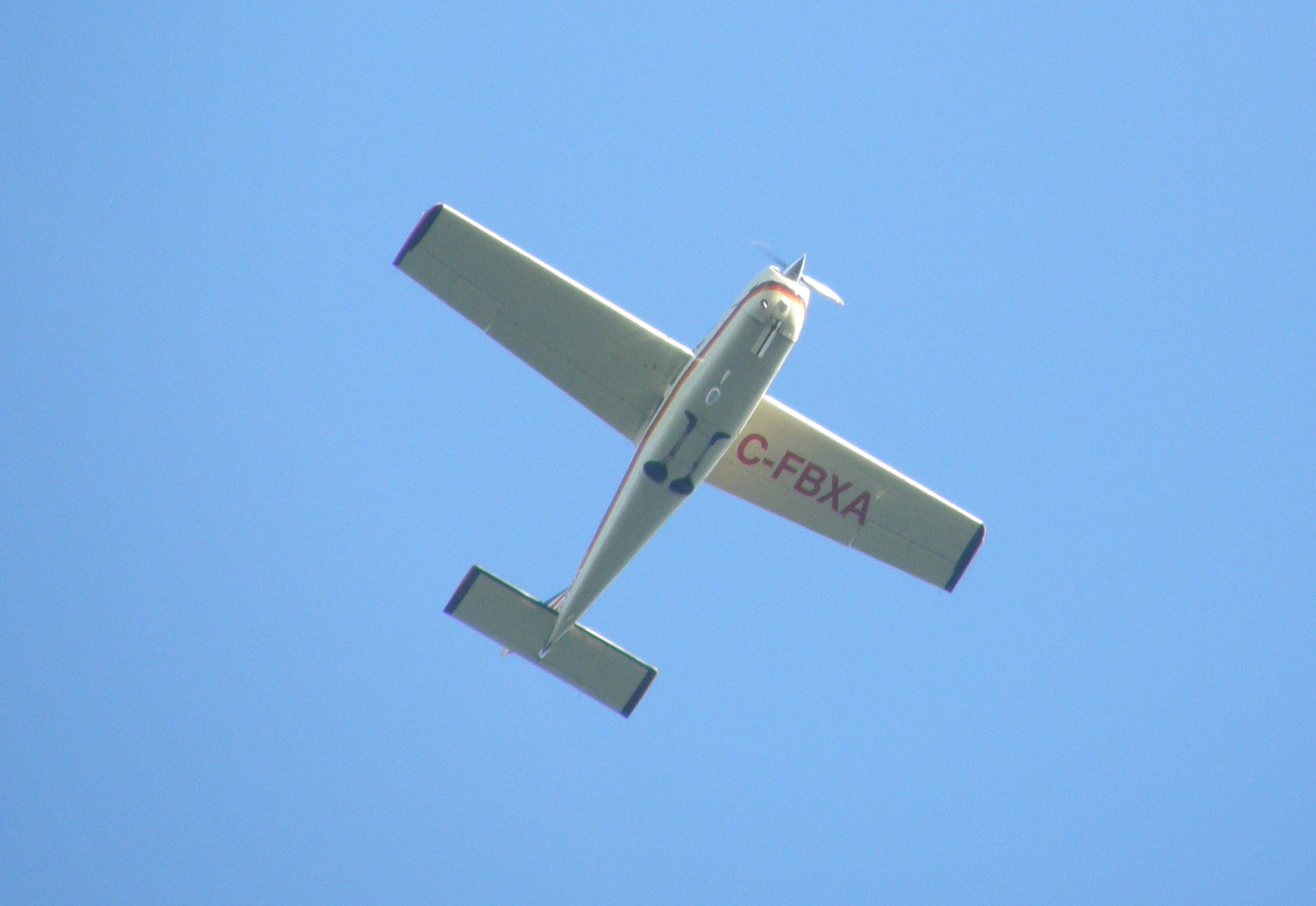 The underside of a Cessna 177RG, tail number C-FBXA, flying over Point Roberts, Washington, USA